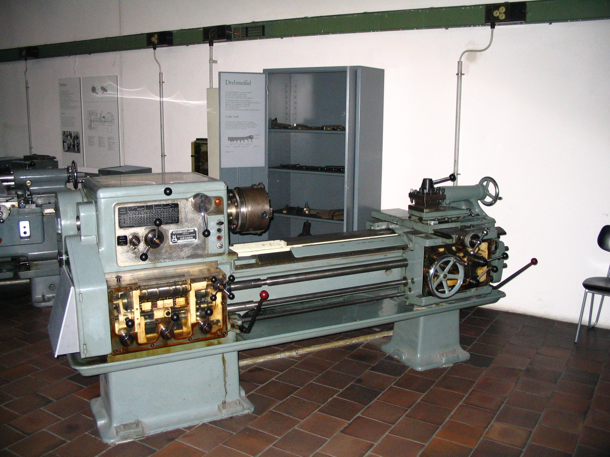 This image shows a photo of a old lathe in the "Deutsches Museum" munich (Germany)